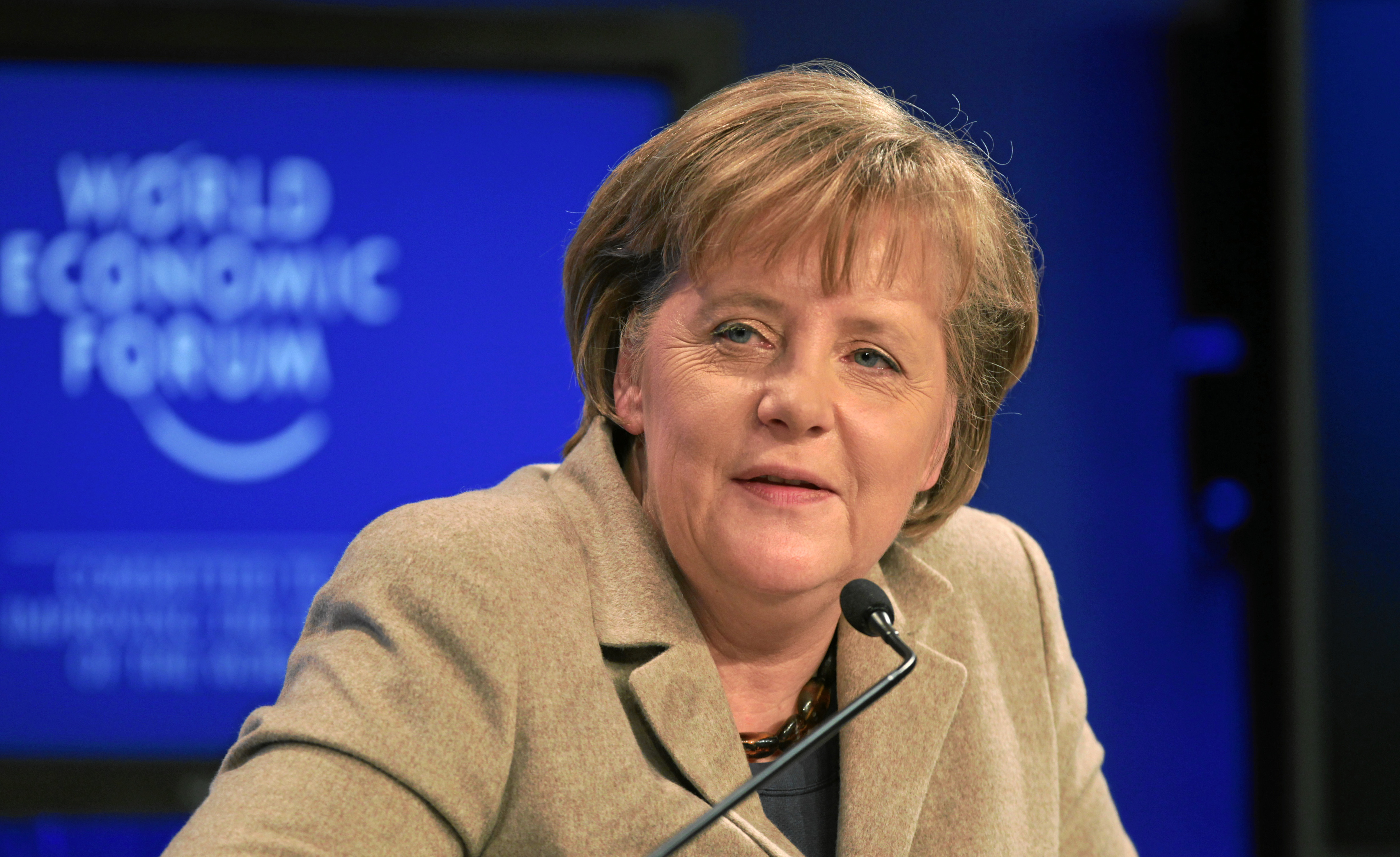 DAVOS/SWITZERLAND, 28JAN11 - Angela Merkel, Federal Chancellor of Germany speaks during the session 'Revitalizing Global Trade' at the Annual Meeting 2011 of the World Economic Forum in Davos, Switzerland, January 28, 2011. Copyright by World Economic Forum by Sebastian Derungs